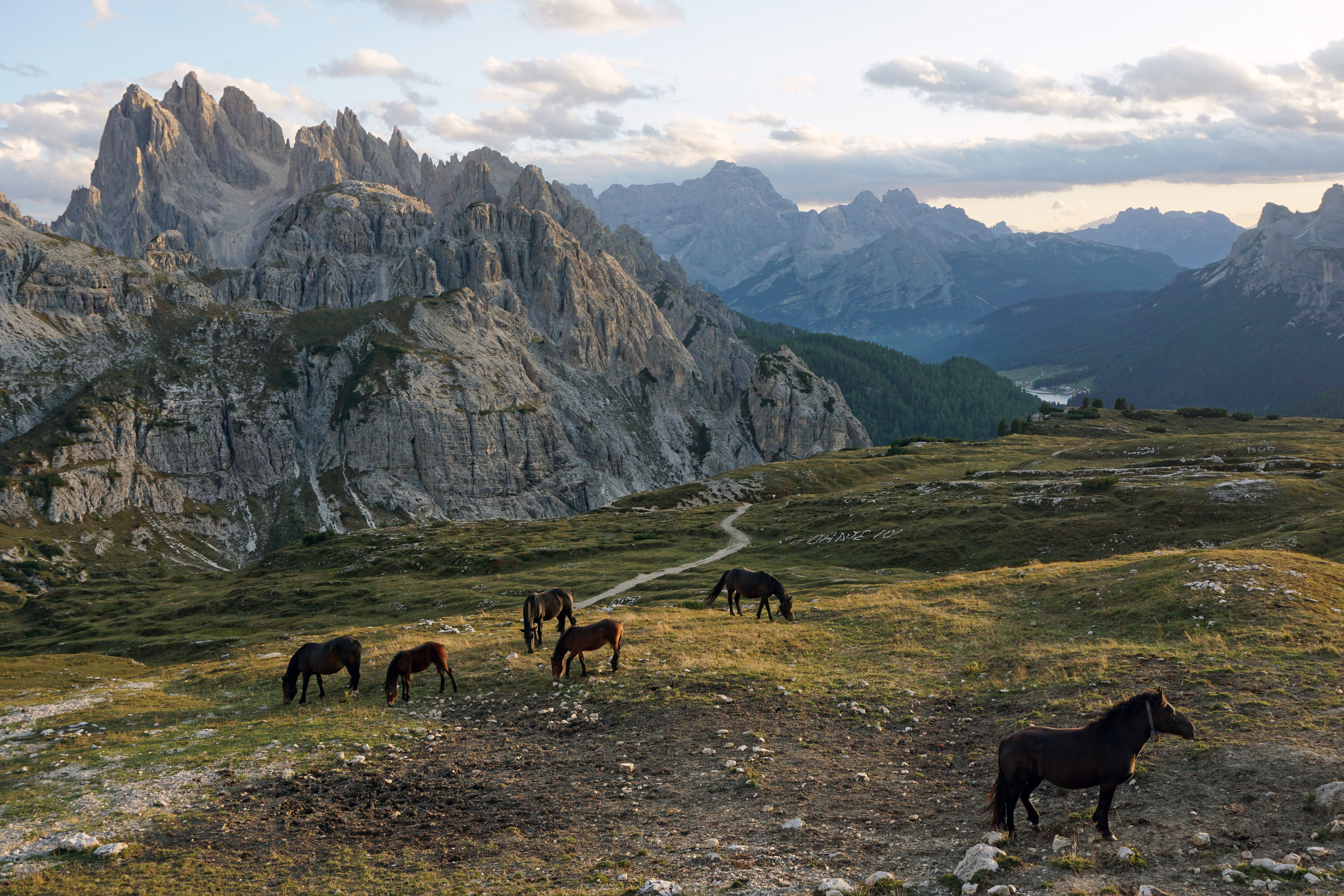 Horses on pasture at Parco Naturale Tre Cime, South Tyrol, Italy.